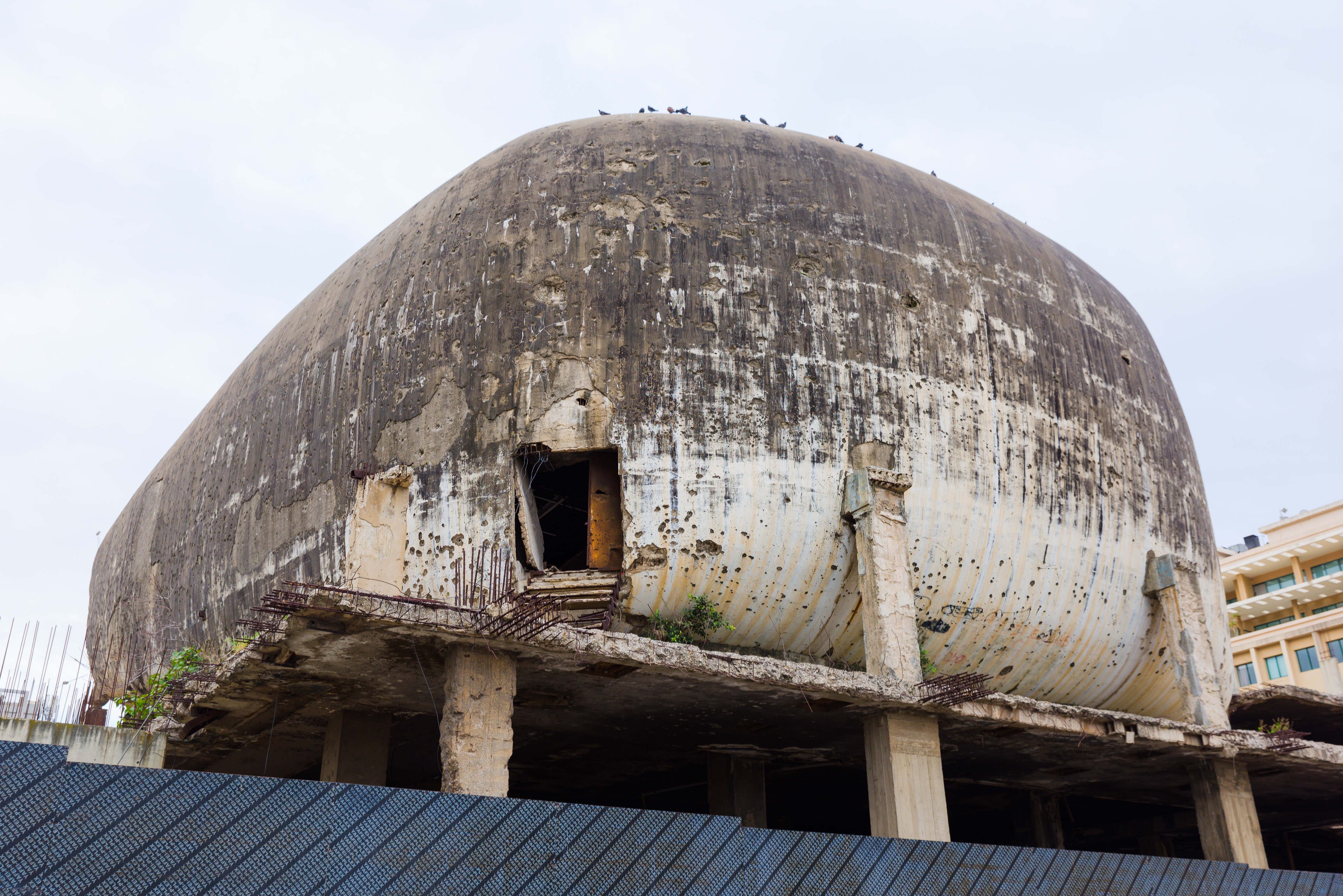 The ruins of "The Egg", an unfinished cinema complex in Beirut, seen from the NE corner and showing the peculiar round shape of the amphitheater.